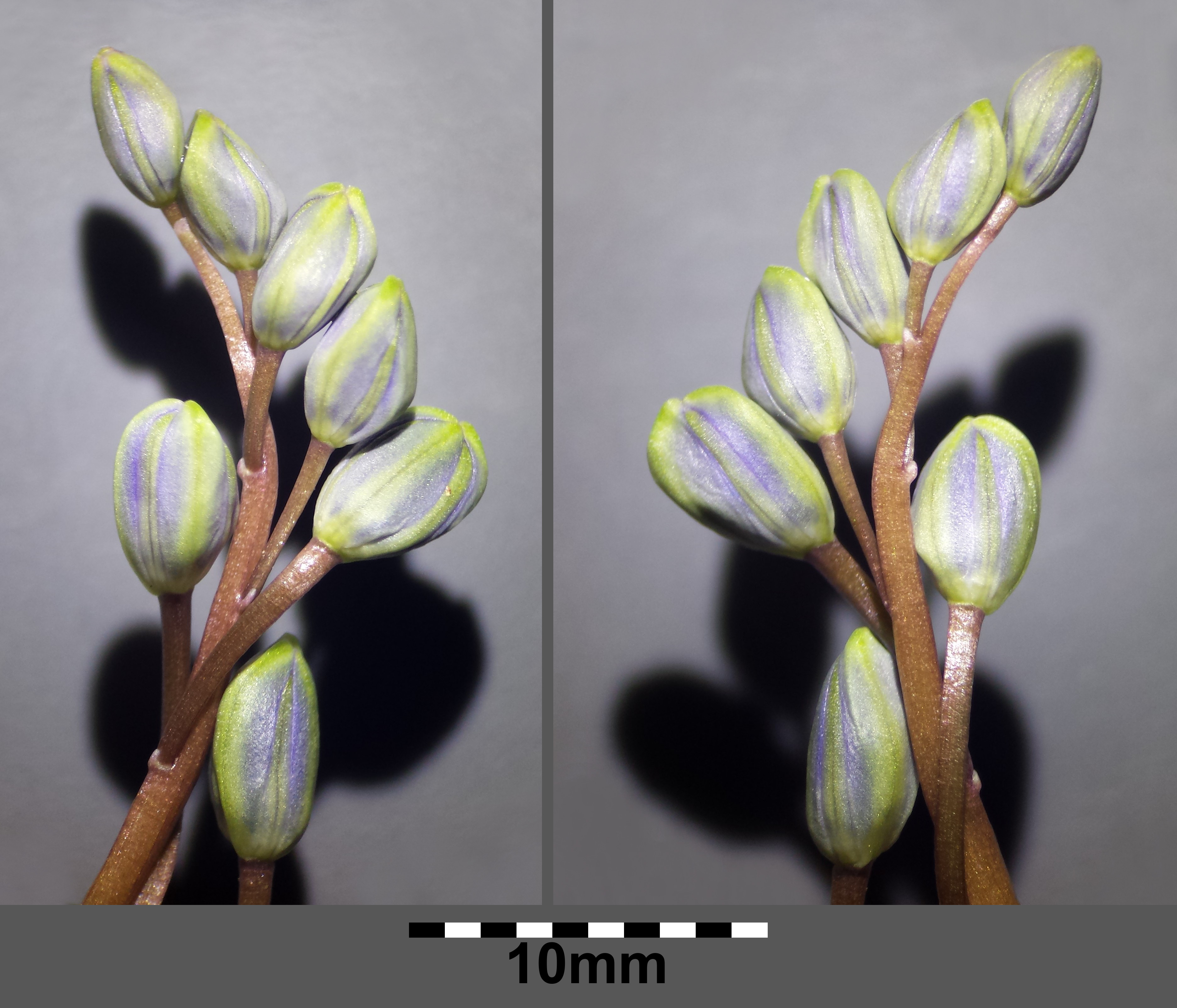 Inflorescence with buds Taxonym: Scilla vindobonensis ss Fischer et al. EfÖLS 2008 ISBN 978-3-85474-187-9 Location: Rohrwald, district Korneuburg, Lower Austria - ca. 275 m a.s.l. Habitat: wet wood